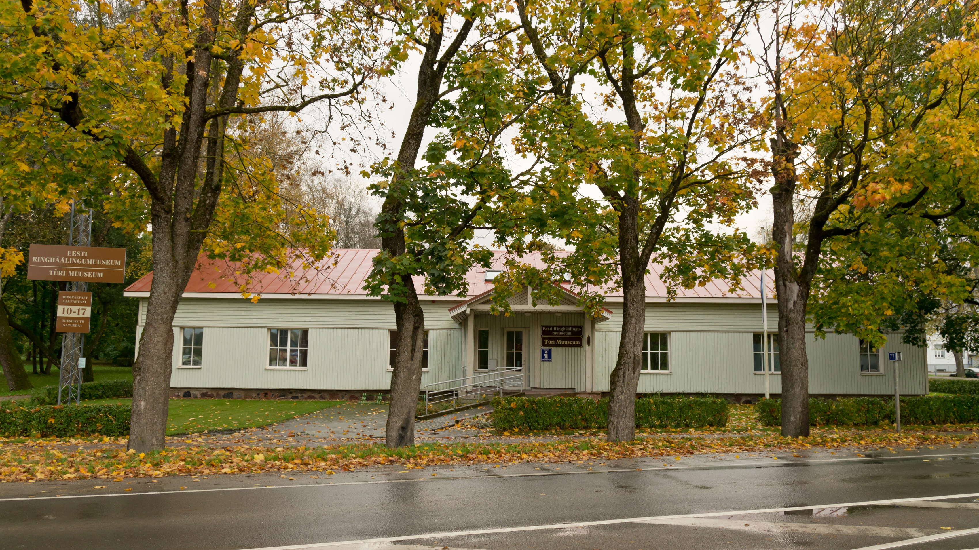 Estonian Broadcasting Museum at Türi town. Autumn 2012.